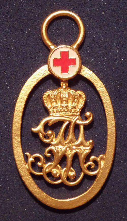 Red Cross Medal (Oldenburg) 1907; replica